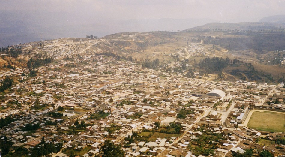 Chachapoyas, seen from paraglider